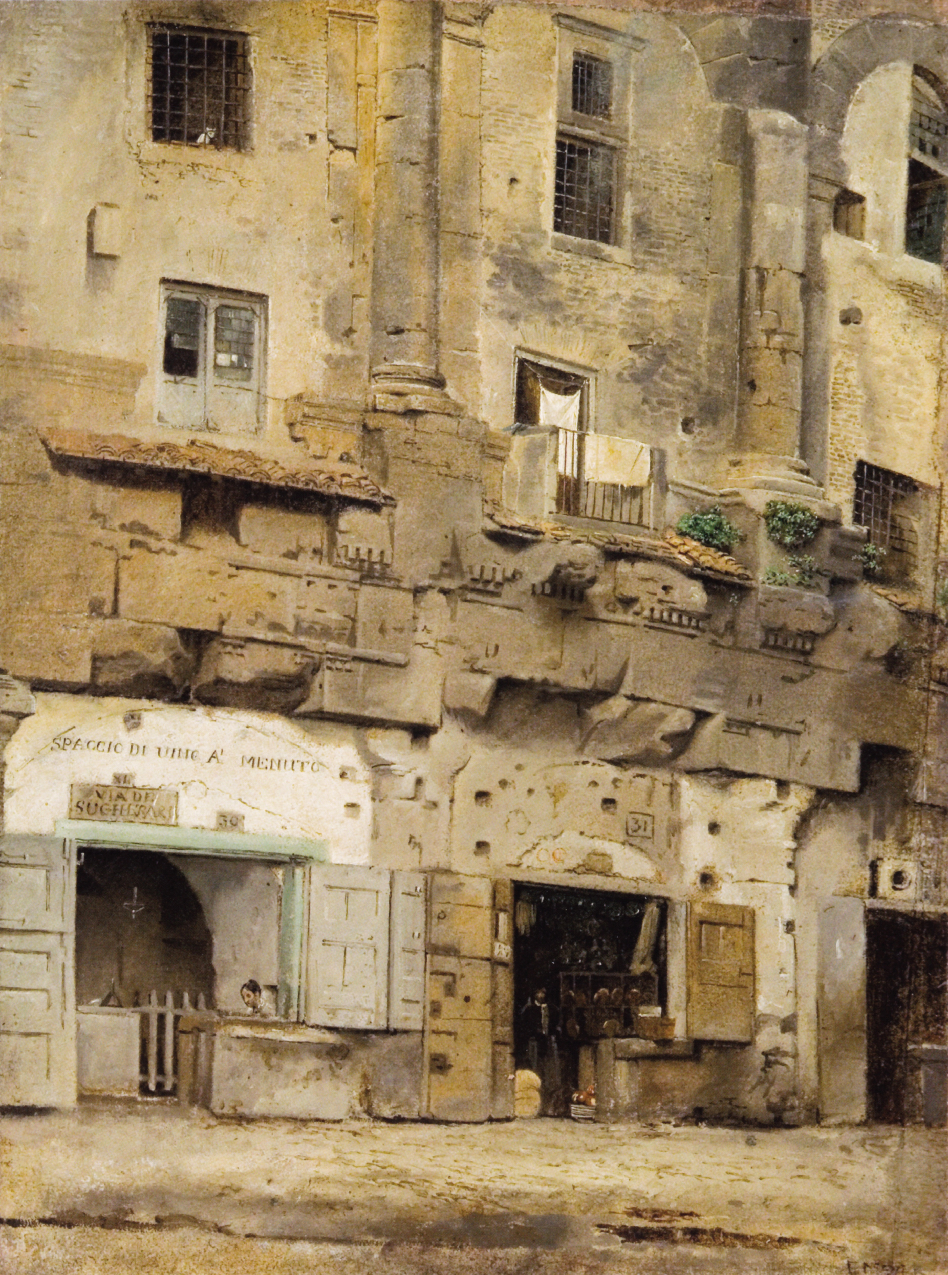 Meyer lived in Rome from 1824, and he sold or gifted this painting to his collegue Wilhelm Marstrand, who visited Rome 1836-1840 and 1845-1848. The art collector Heinrich Hirschsprung bought it in 1897.